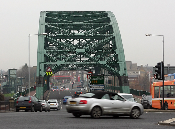 A view over the Wearmouth Bridge, Sunderland, UK